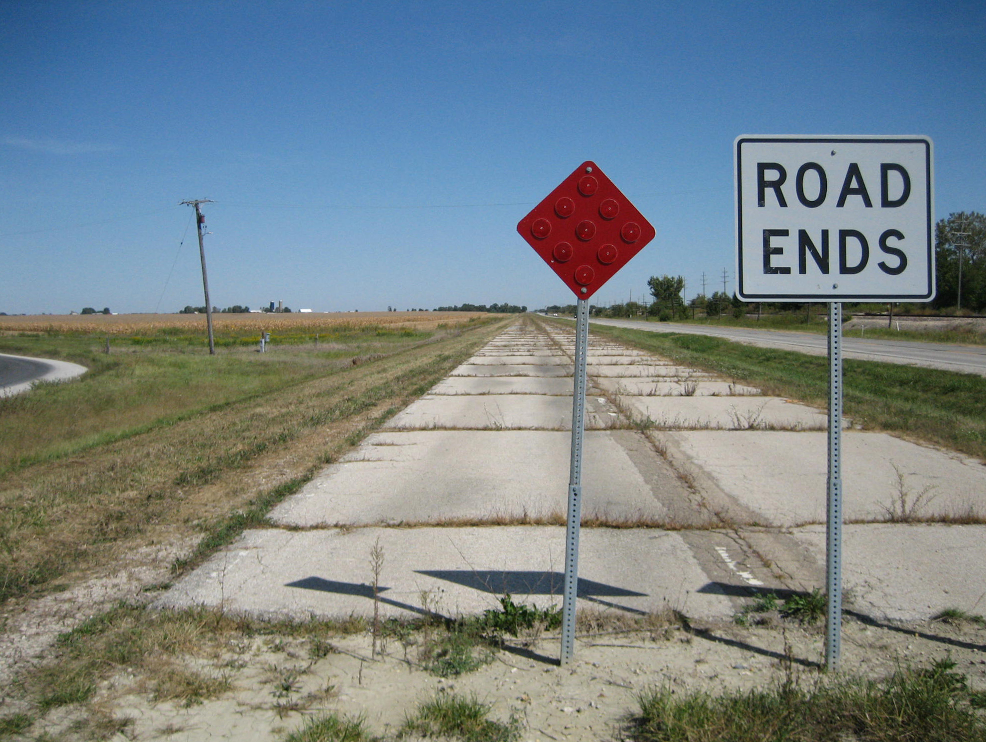 U.S. Route 66, portion of segment from Cayuga to Chenoa, Illinois, United States. North of Cayuga, Illinois. U.S. National Register of Historic Places.